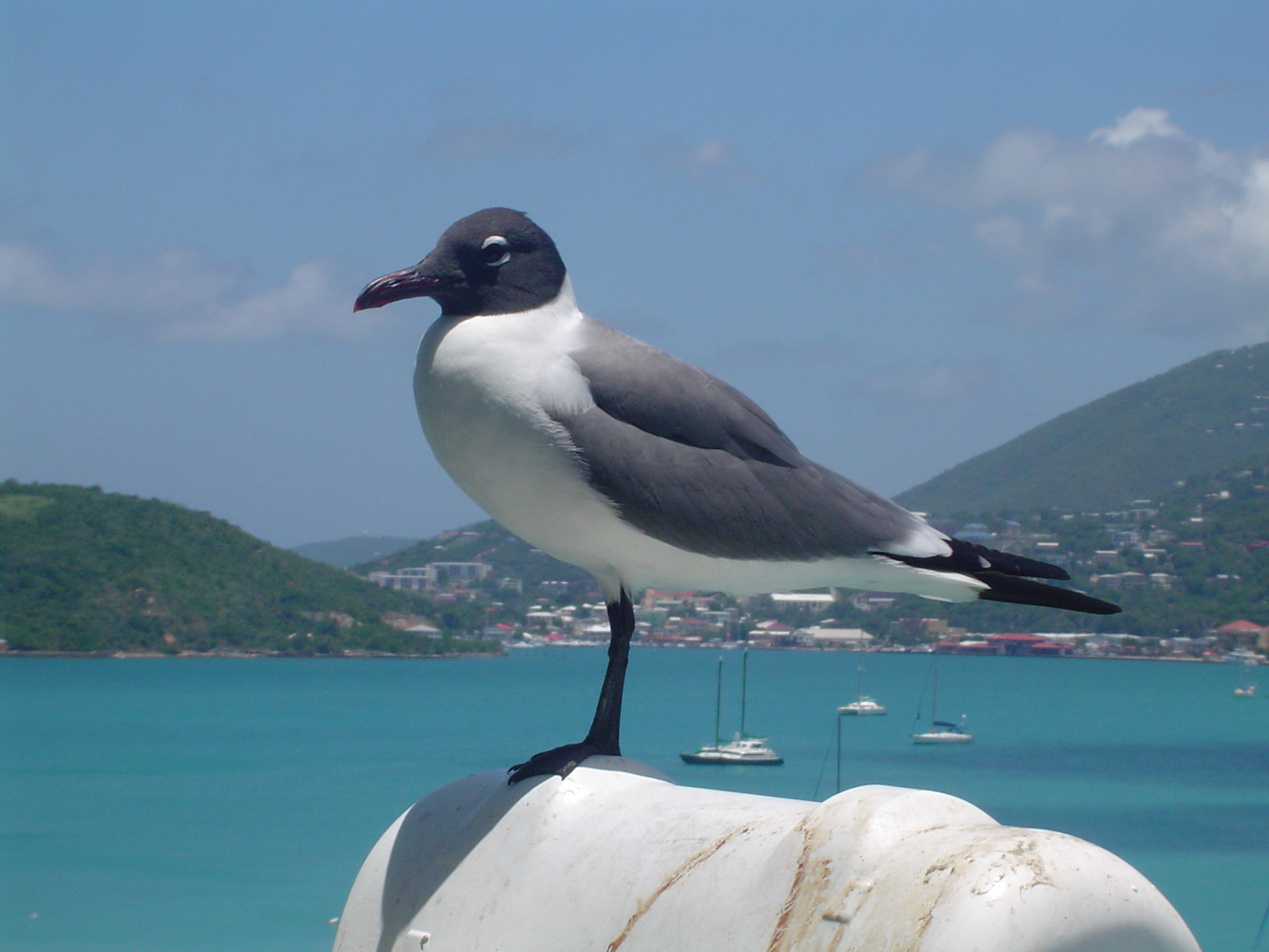 A Laughing Gull perched on a light attached to my cruise ship at St. Thomas, Virgin Islands.